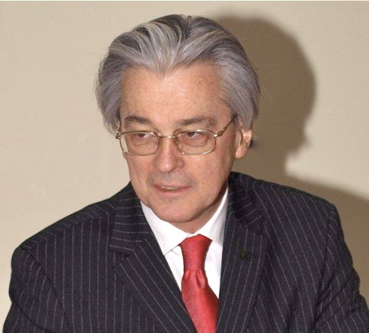 Portrait pic of Francis Martin O'Donnell taken in 2012